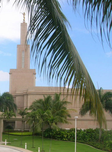 The Santo Domingo Dominican Republic Temple of The Church of Jesus Christ of Latter-day Saints.